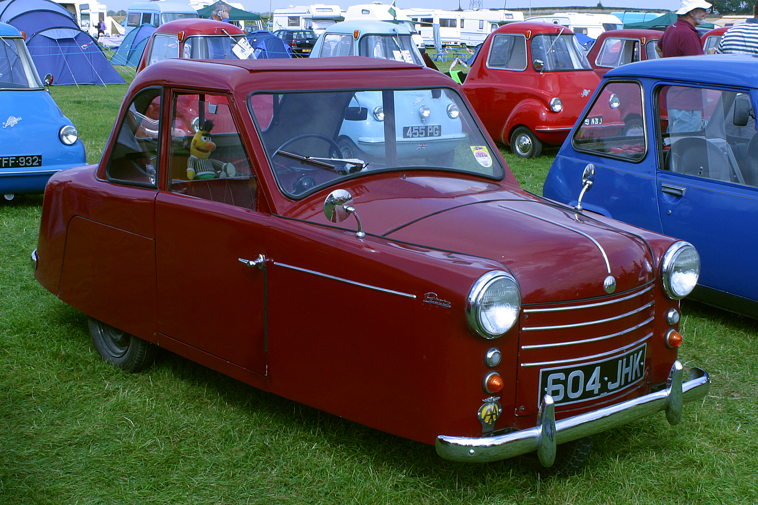 1956 AC Petite Mark II at the 2007 National Microcar Rally at Huntingdon Racecourse, Cambridgeshire, England